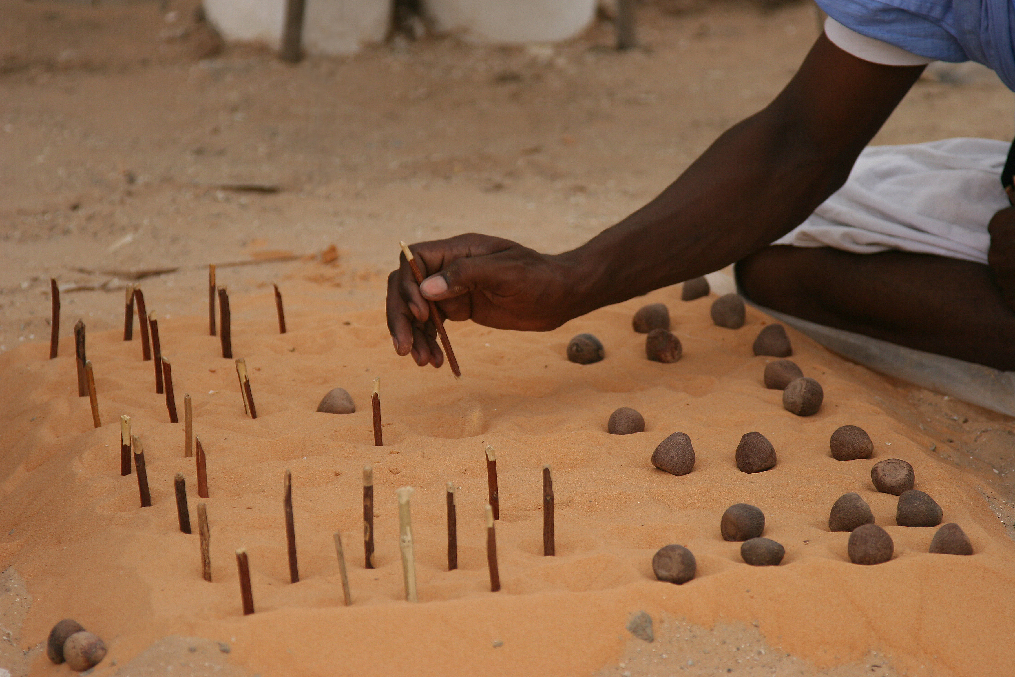 Mauritanian checkers played with small wooden sticks and nuts. June 2008